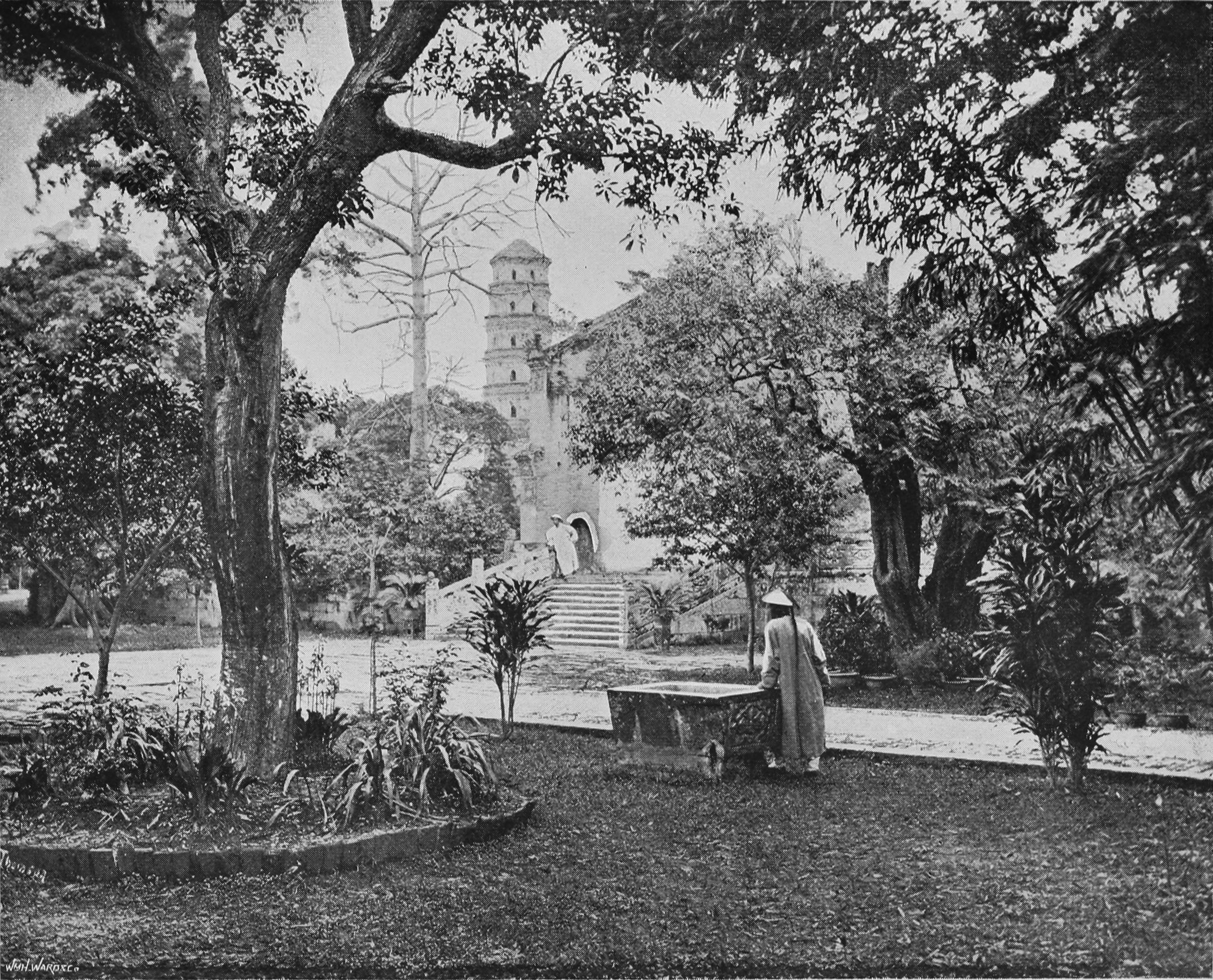 photo from Through China with a camera